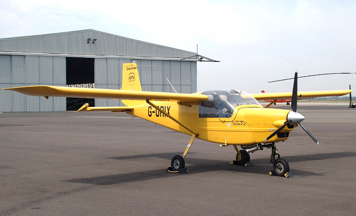 ARV Super2 with Midwest twin-rotor Wankel engine and ground-adjustable Arplast Ecoprop